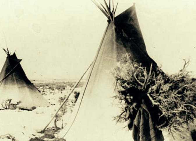 A at in 1883